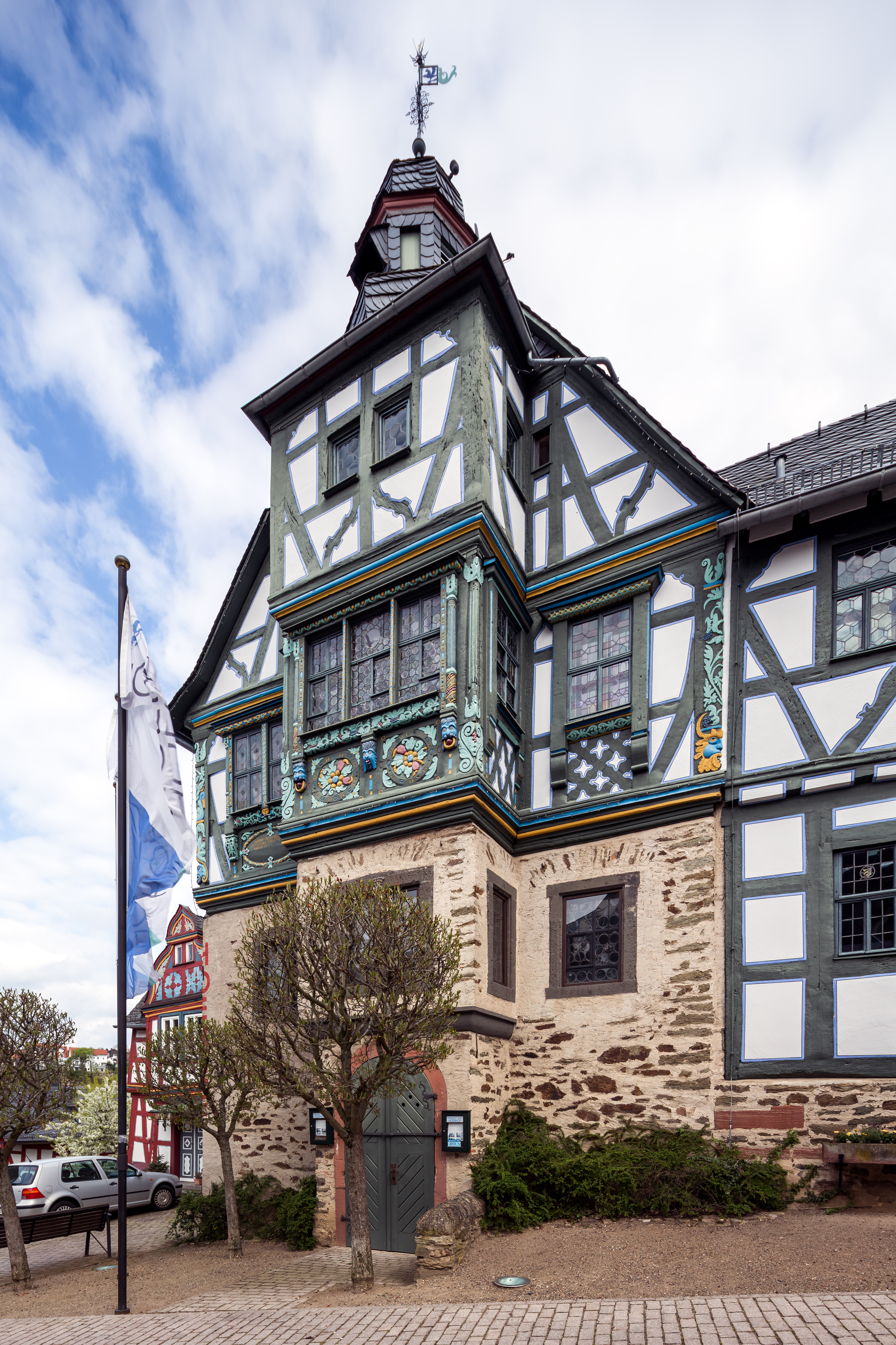 Idstein: Höerhof (Höer Court), Facade of the Northern Wing as seen from the southwest